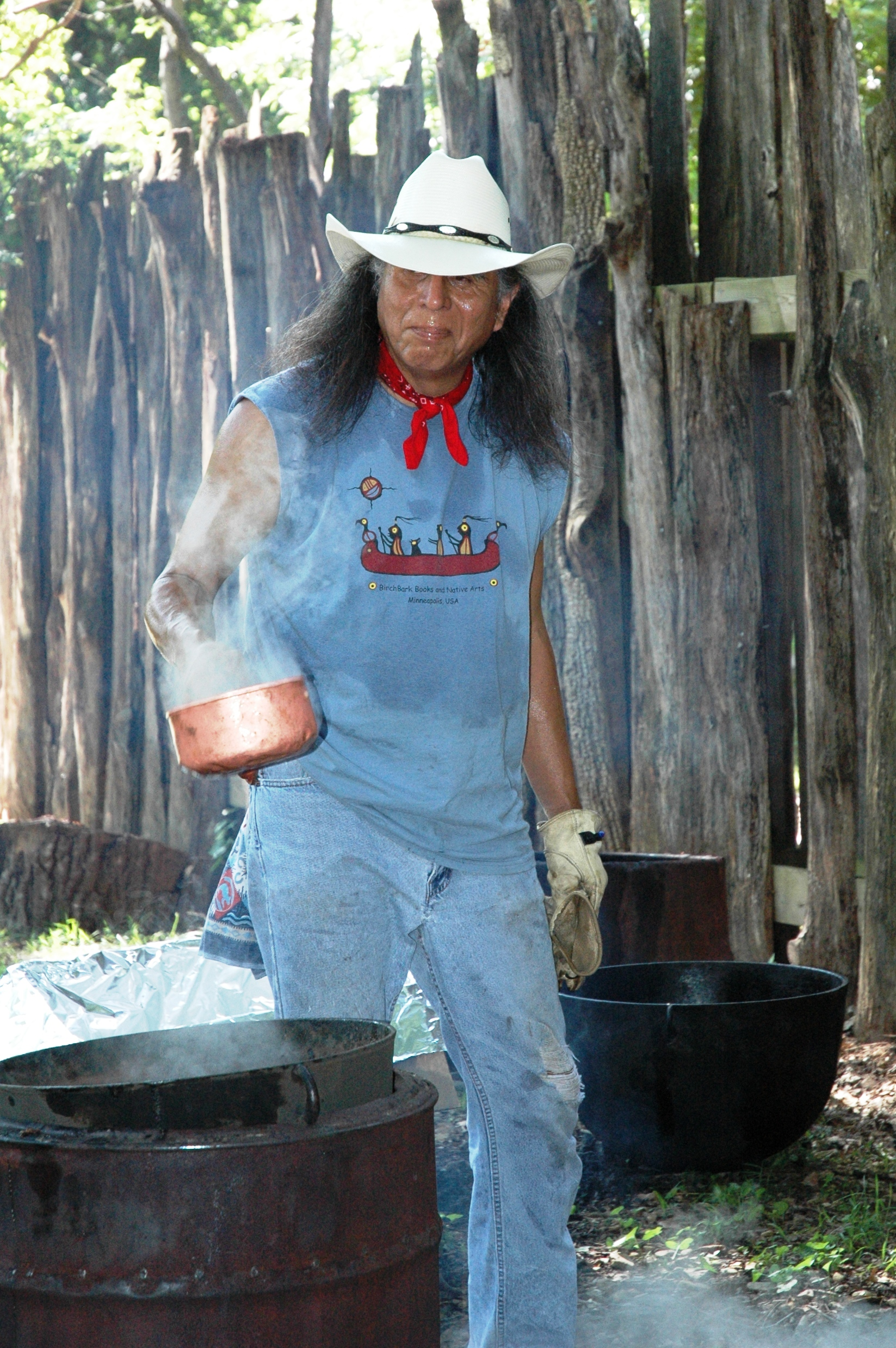 Scope and content: The original finding aid described this photograph as: Original Caption: A typical hog fry is done on special occasions. Tradition continues today as a Cherokee man, dressed in jeans, a t-shirt, a cowboy hat, and a bandanna, is cooking pork in the big black kettles over an open fire. Location: Oklahoma Status: Public domain.